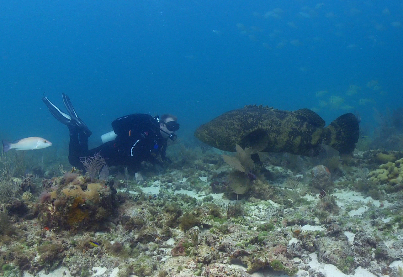 National Park Service diver Paul O'Dell against an Atlantic Goliath Grouper at Dry Tortugas National Park.